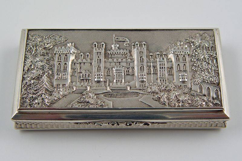 Victorian silver castle top snuff box showing Windsor Castle.